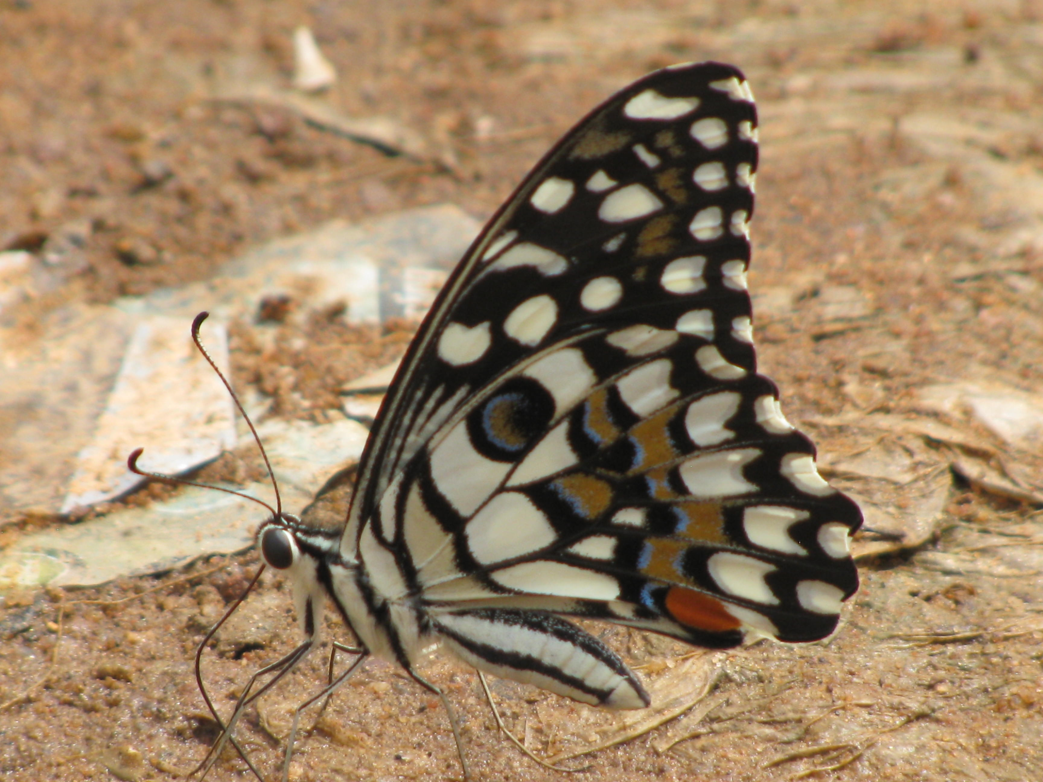 Common Lime Butterfly Papilio demoleus found in Pashchim Medinipur,West Bengal,India.